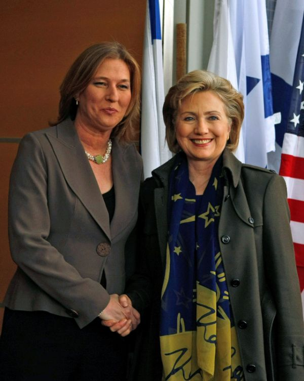 Secretary Clinton shakes hand with Israeli Foreign Minister Tzipi Livni prior their meeting at the Foreign Ministry in Jerusalem.